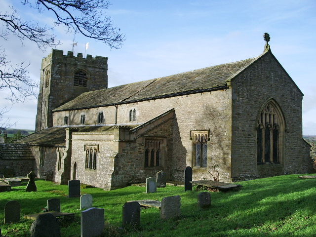 St Wilfrid's parish church, Melling, Lancashire, seen from the southeast